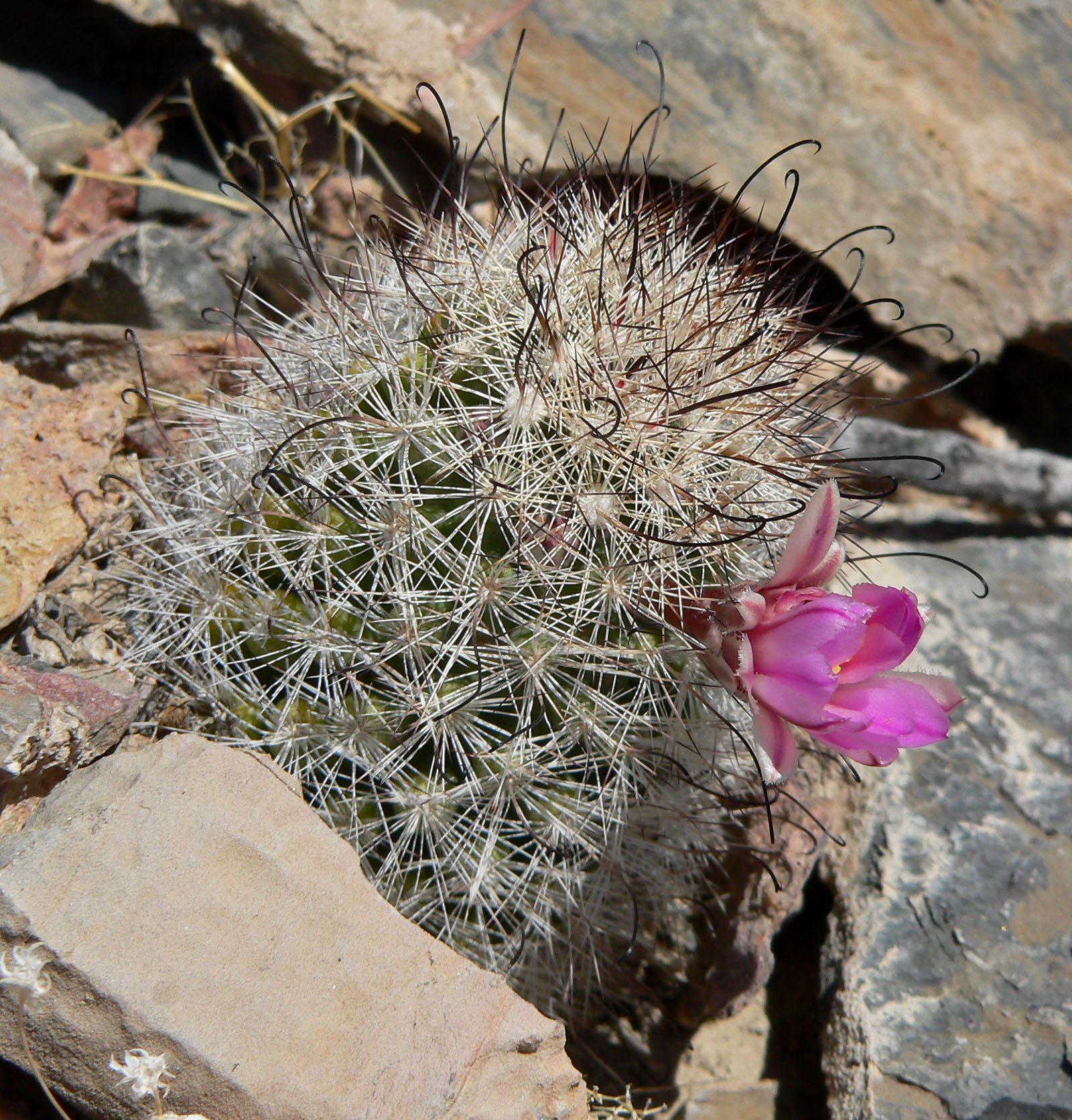 Mammillaria tetrancistra near Devils Hole, Death Valley National Park / Ash Meadows National Wildlife Refuge, southern Nevada